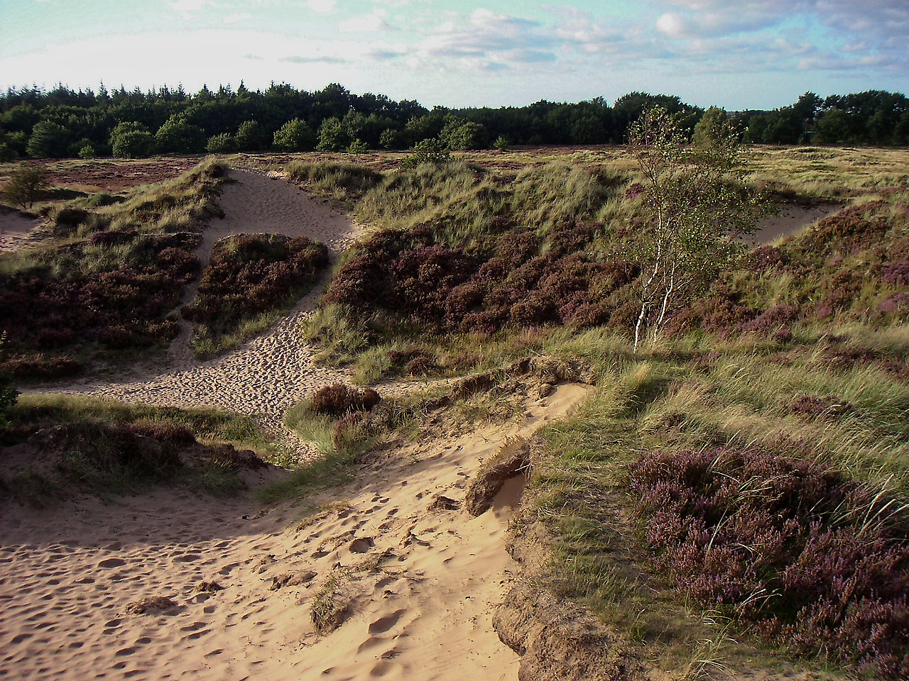 Nature Reserve Süderlügumer Binnendünen in north-frisia in germany